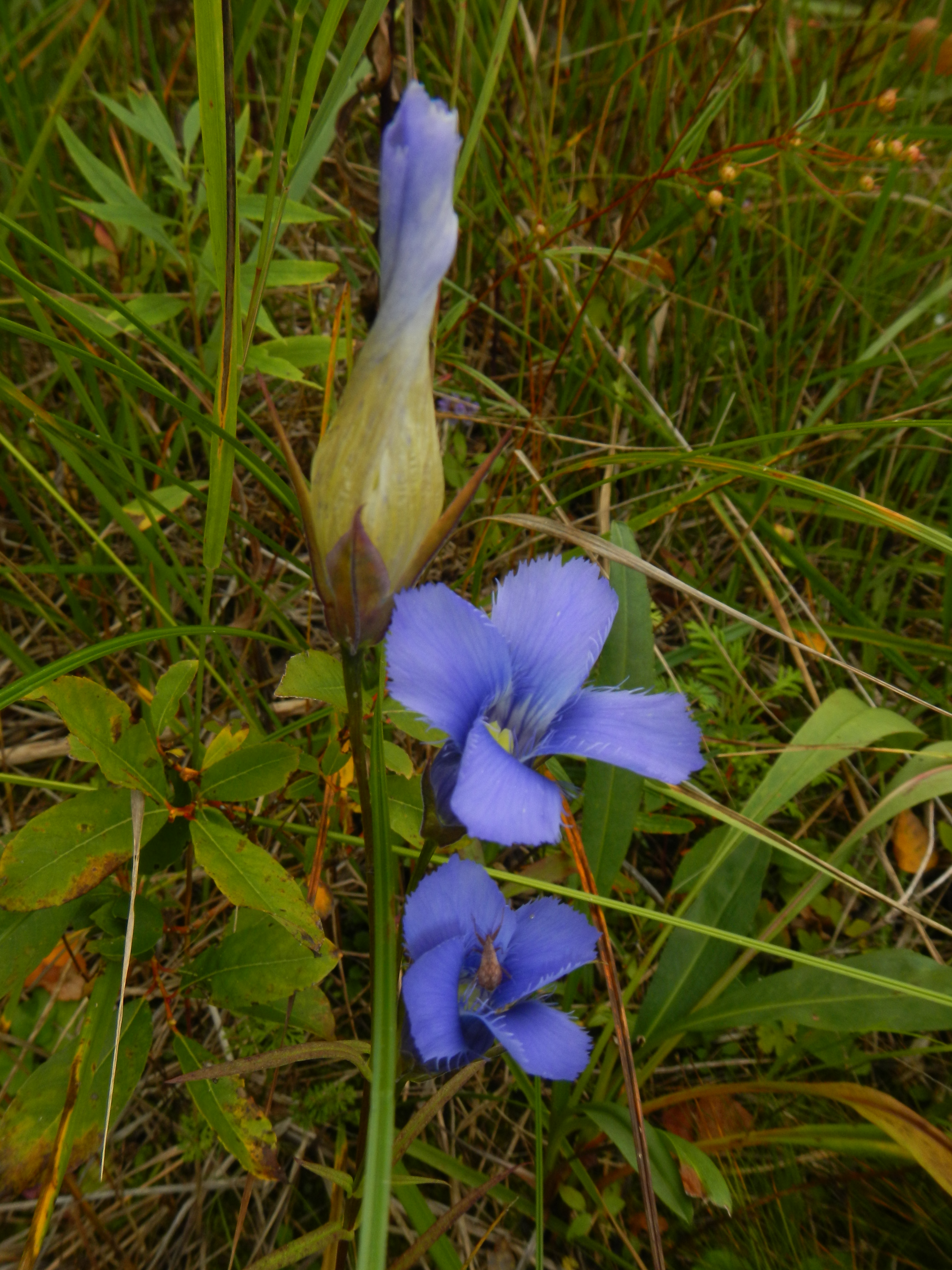 Gentianopsis virgata, shore of Georgian Bay, Simcoe County, Ontario.